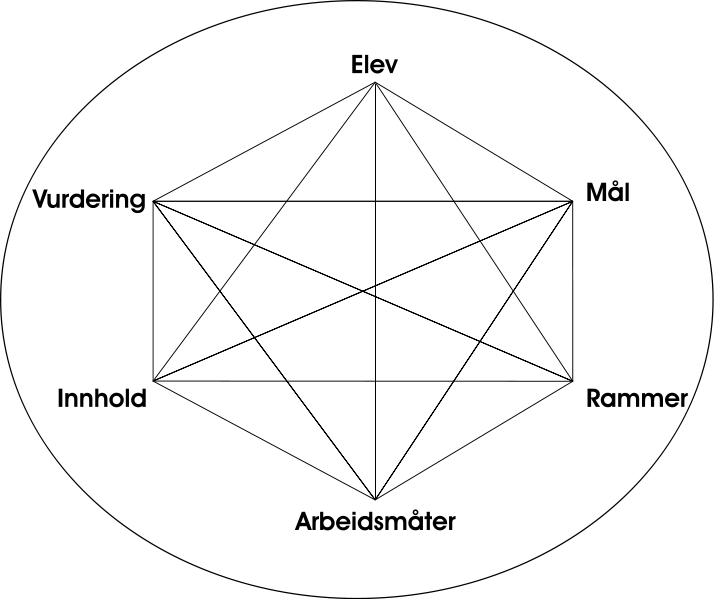 The diamond model for didactical analysis (Norwegian)